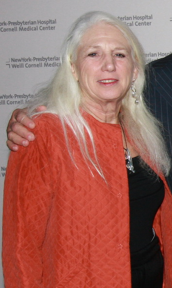 Dr. Nancy Wexler at NewYork-Presbyterian Hospital/Weill Cornell Medical Center's Cabaret 2009 Benefit October 21, 2009. Photo Credit: Cutty McGill